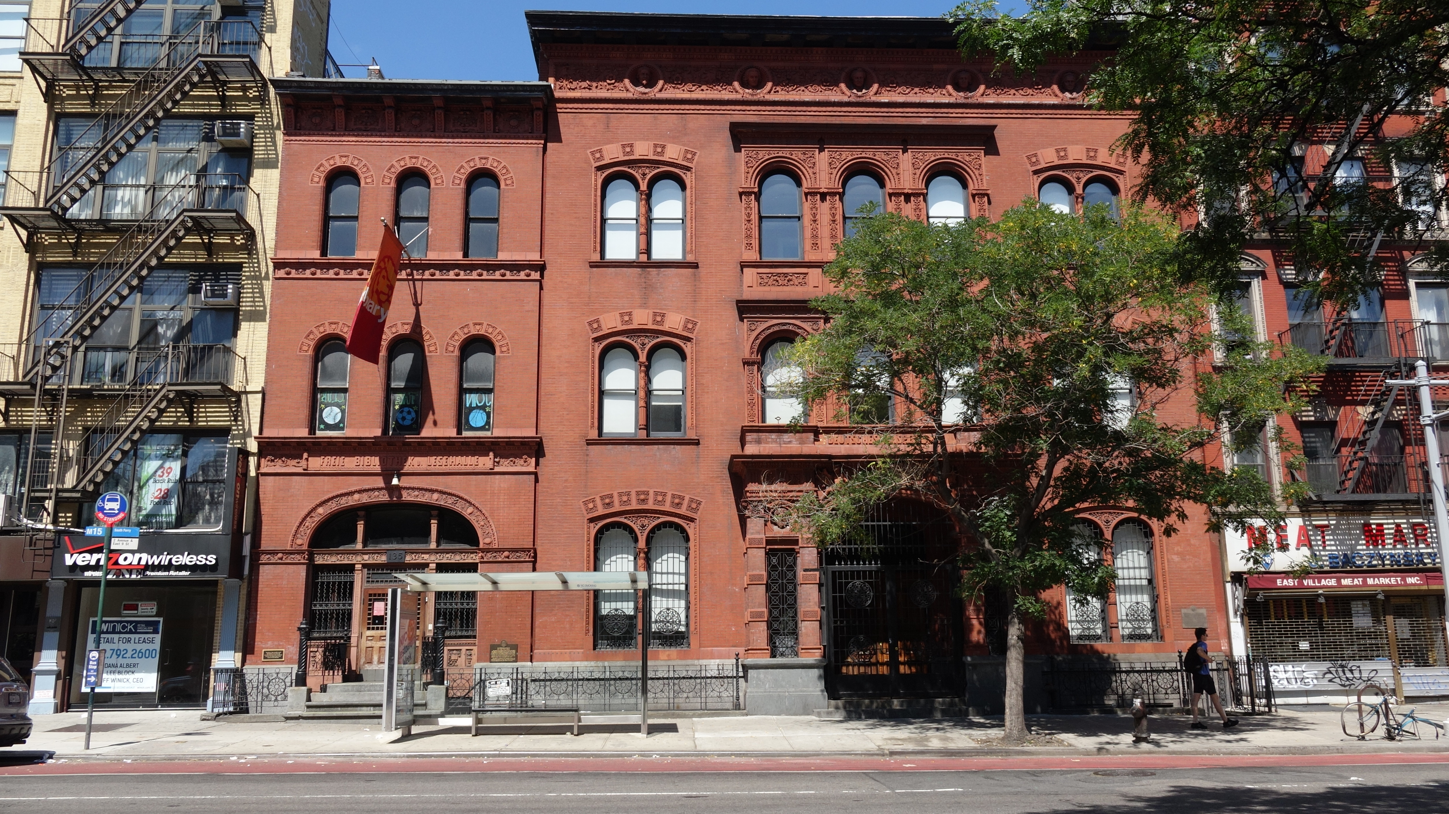 Ottendorfer Library in New York City